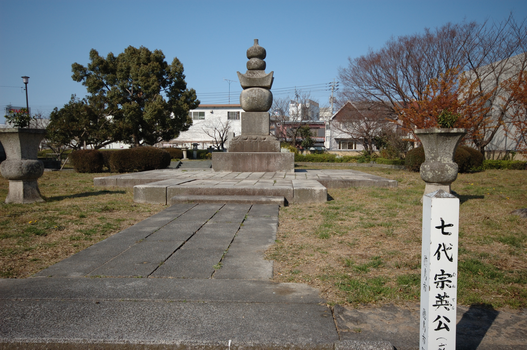 grave of Hachisuka Muneteru(the seventh feudal lord)